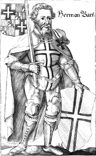 Heinrich II von Tunna grand master of Teutonic Order